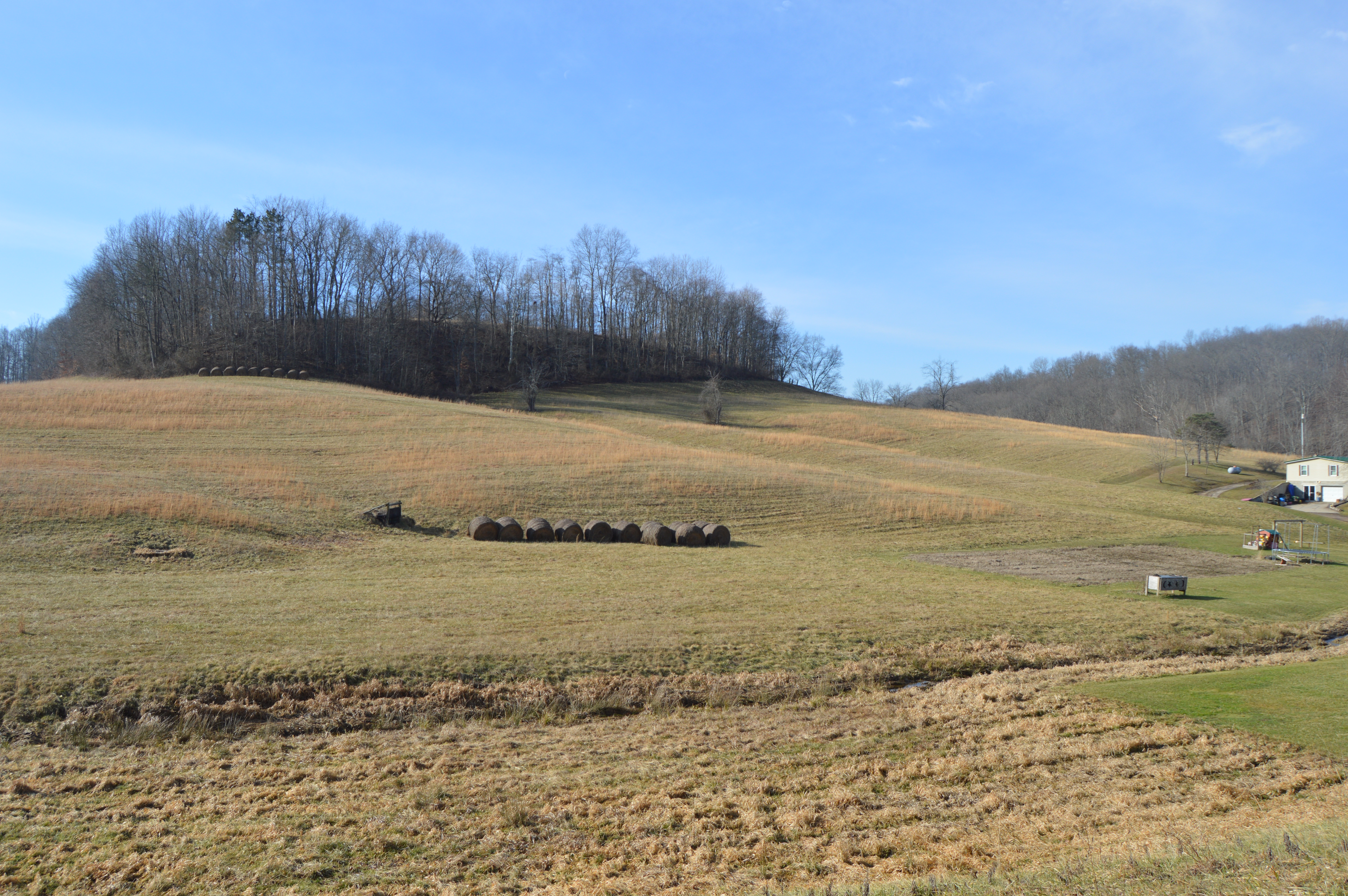 Fields on the southern side of Run Road west of State Route 689 in far western Columbia Township, Meigs County, Ohio, United States.